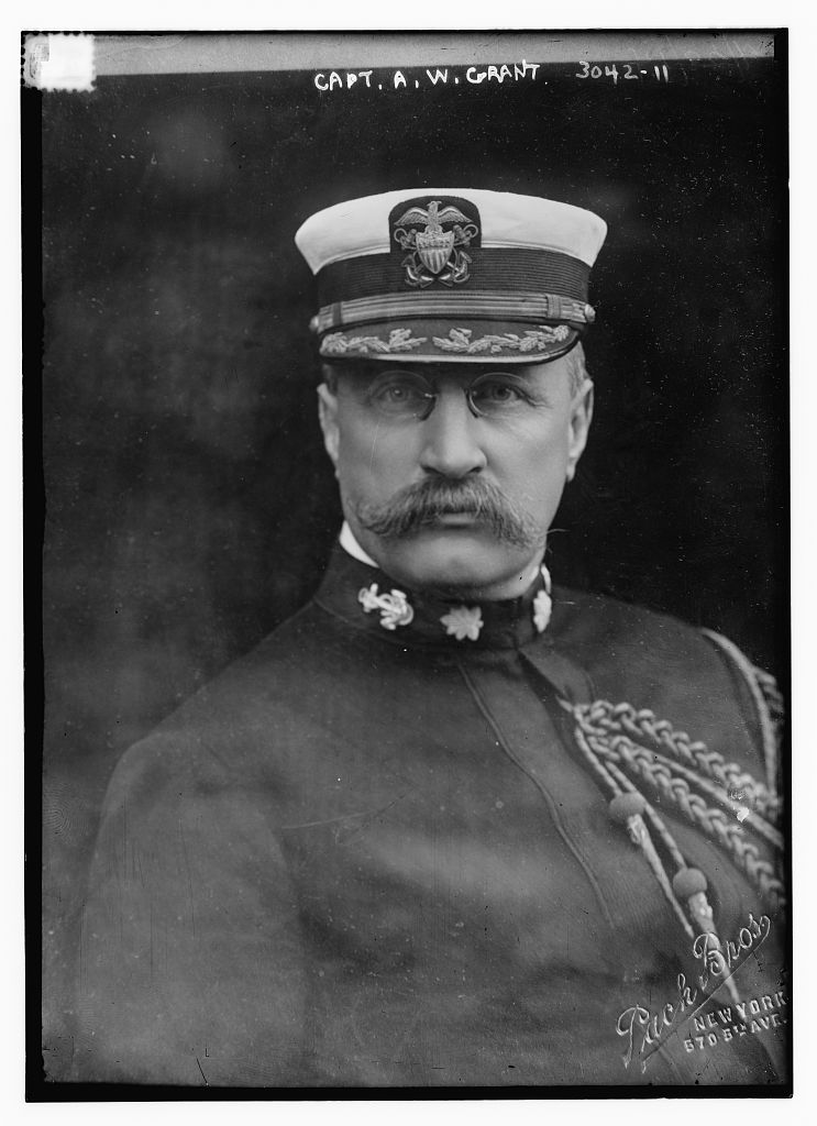 Capt. A. W. Grant circa 1914 (LOC) Bain News Service,, publisher. Capt. A.W. Grant [between ca. 1910 and ca. 1915] 1 negative : glass ; 5 x 7 in. or smaller. Notes: Title from unverified data provided by the Bain News Service on the negatives or caption cards. Forms part of: George Grantham Bain Collection (Library of Congress). Format: Glass negatives. Repository: Library of Congress, Prints and Photographs Division, Washington, D.C. 20540 USA, General information about the Bain Collection is available at Persistent URL: Call Number: LC-B2- 3042-11